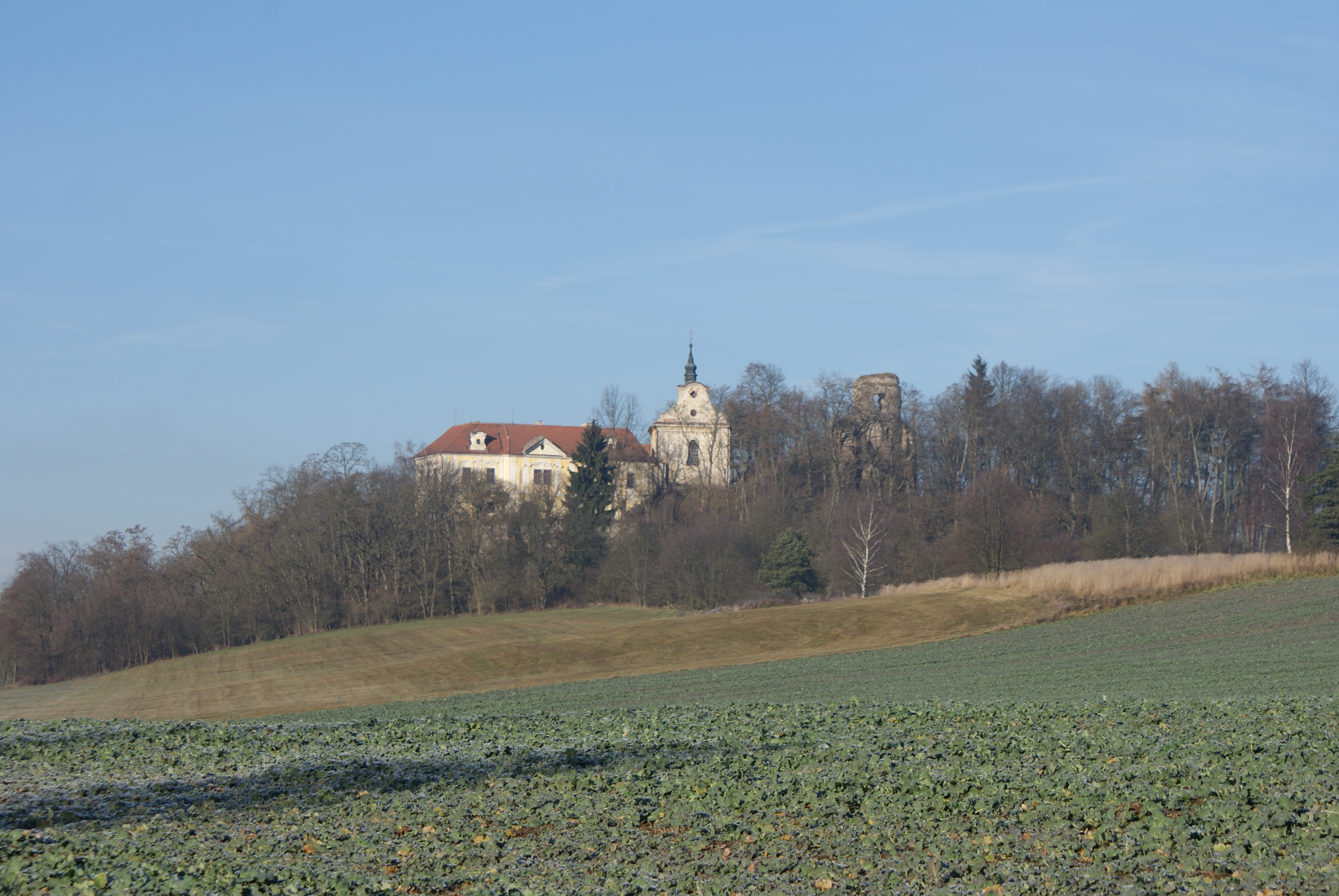 Střela castle in Strakonice district, Czech Republic, seen from the east.